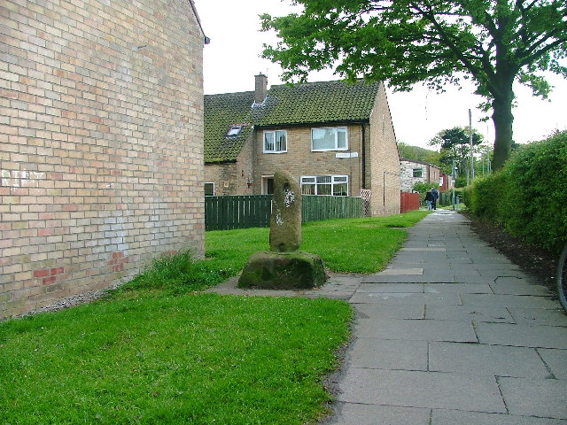 Ruther Cross Marking the one mile point on the old Guisborough to Kildale pannier route. Now enclosed by a modern housing estate.